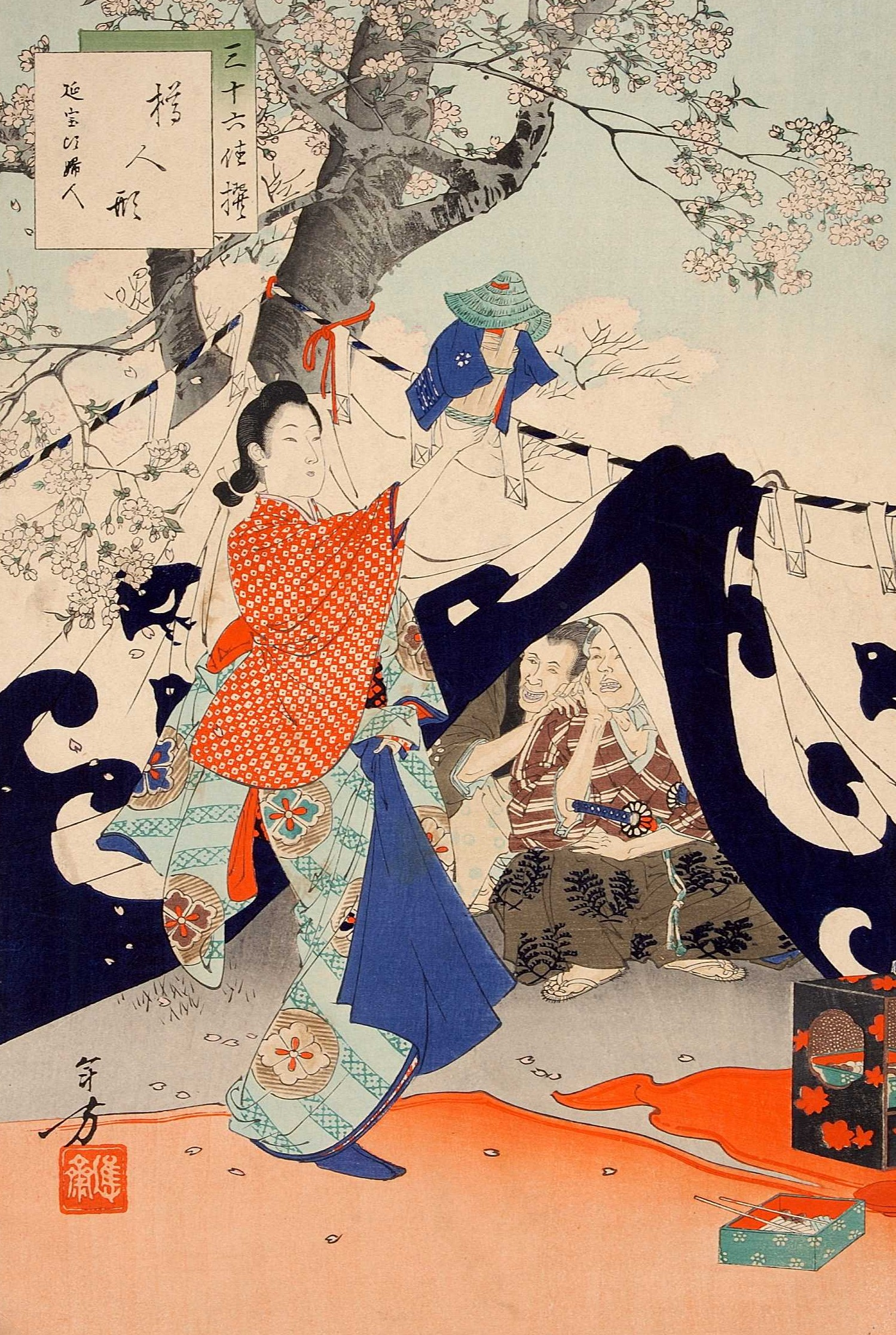 Handpuppet Made from a Bucket: Woman of the Enpō Era[1673-81], from the series Thirty-six Elegant Selections, woodblock print